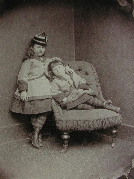 Beatrice and Ethel Hatch taken in Lewis Carroll's Christ Church Studio on 24 March 1874